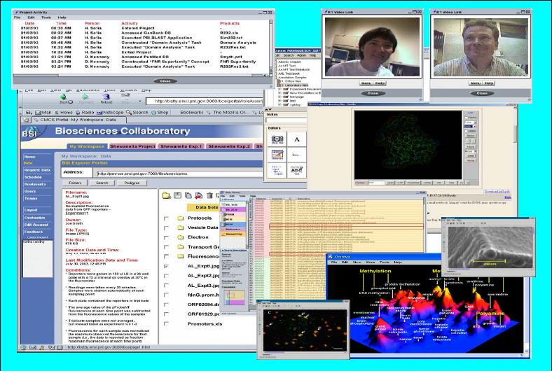 Cogburn, D. L. (2003). HCI in the so-called developing world: what’s in it for everyone, Interactions, 10(2), 80-87, New York: ACM Press.